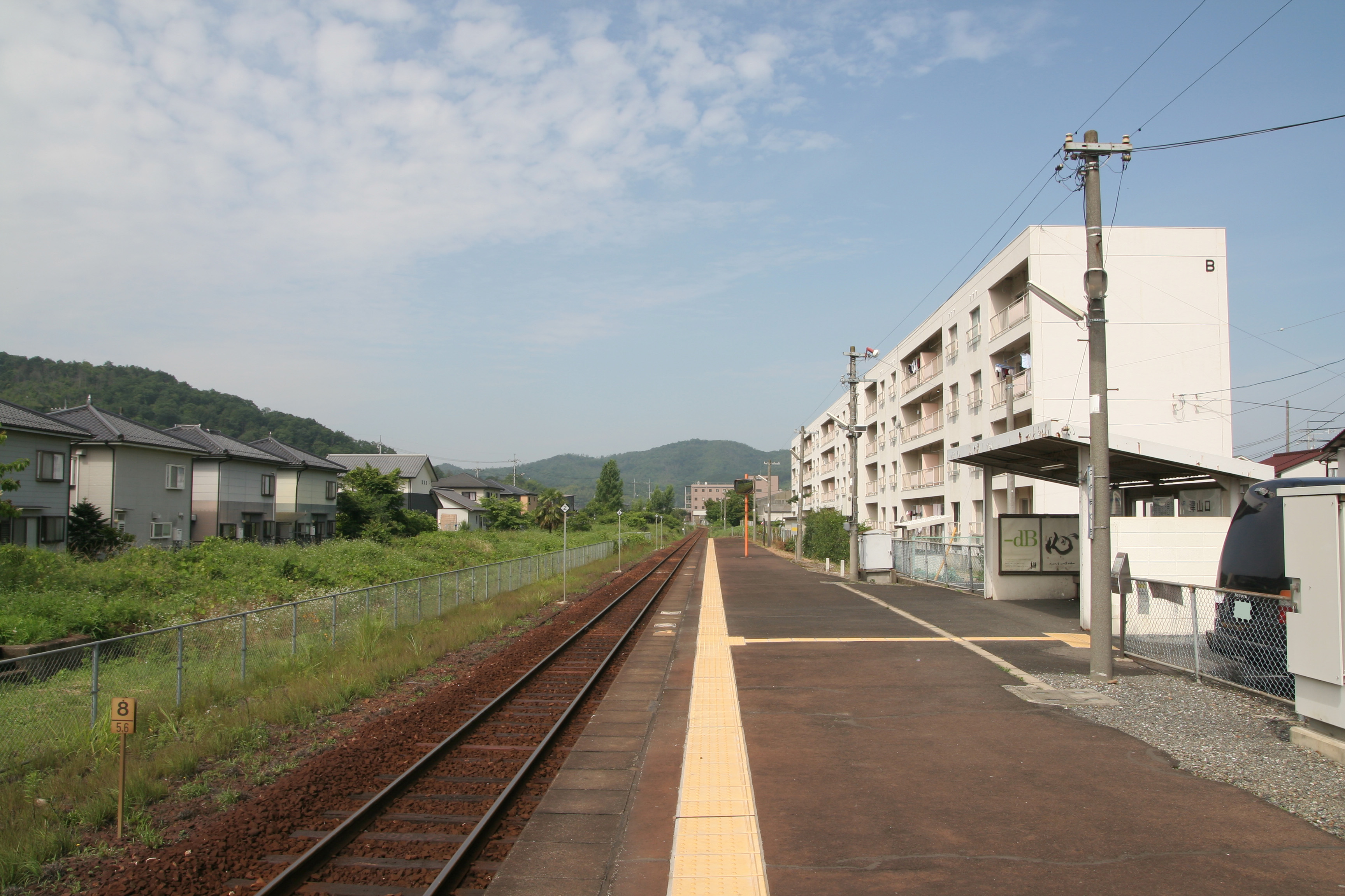 West Japan Railway Tsuyama Line Tsuyamaguchi station enclosure